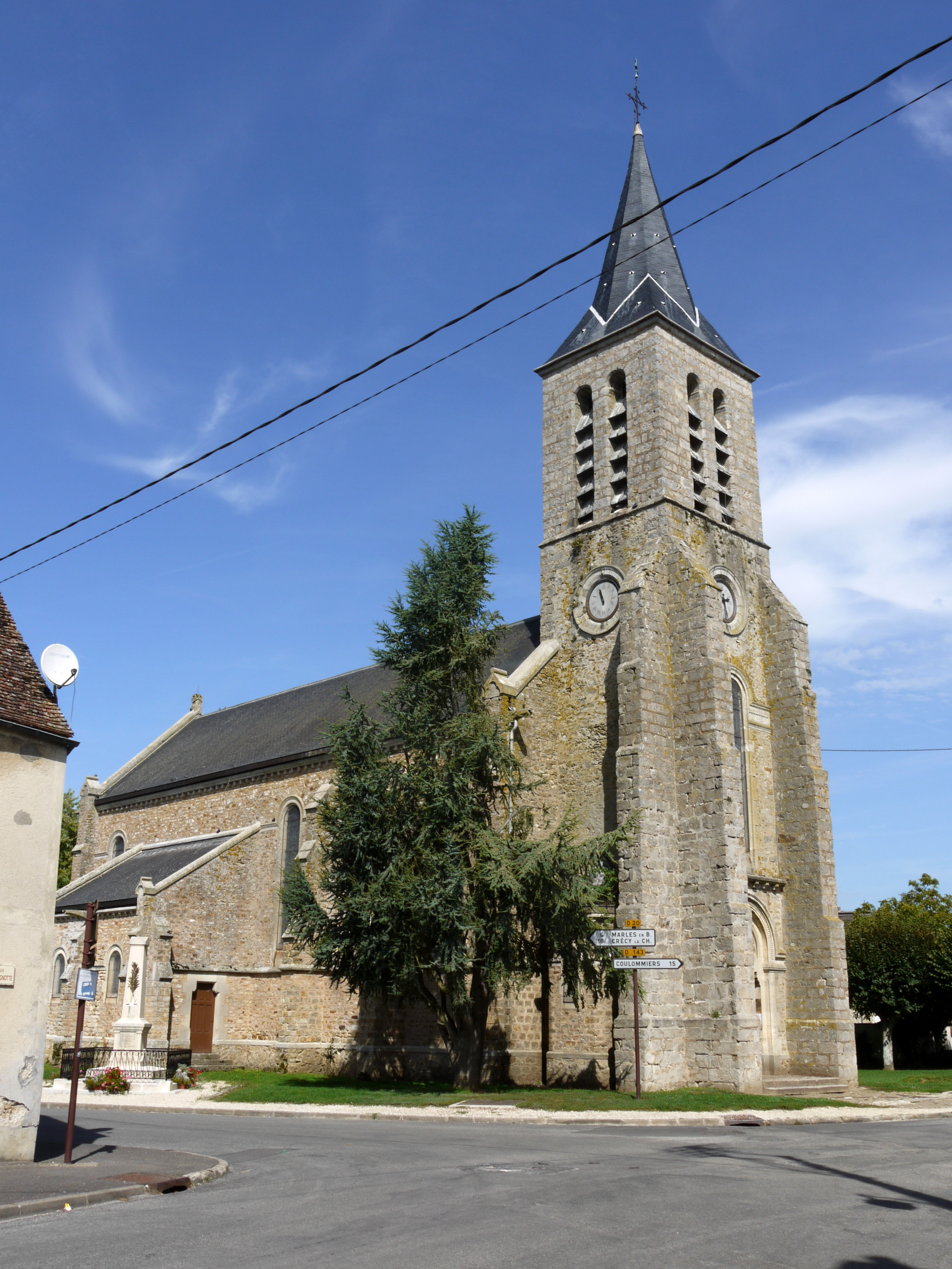 Church of Lumigny, Seine et Marne, Ile de France